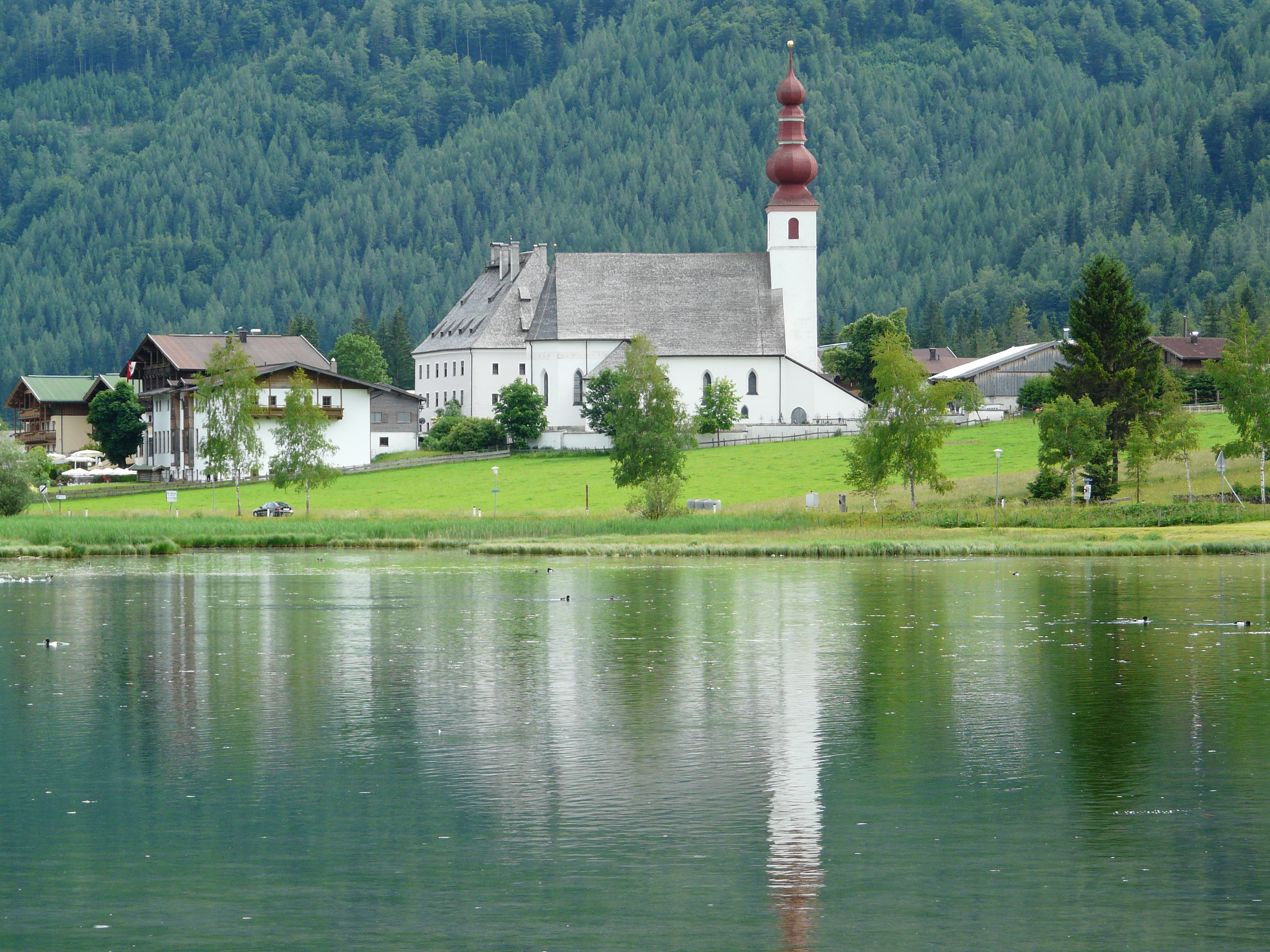 Church of "St Ulrich am Pillersee"